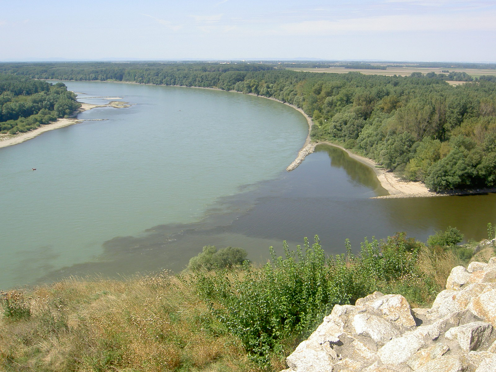 Morava flowing into the Danube. View from Devin Castle